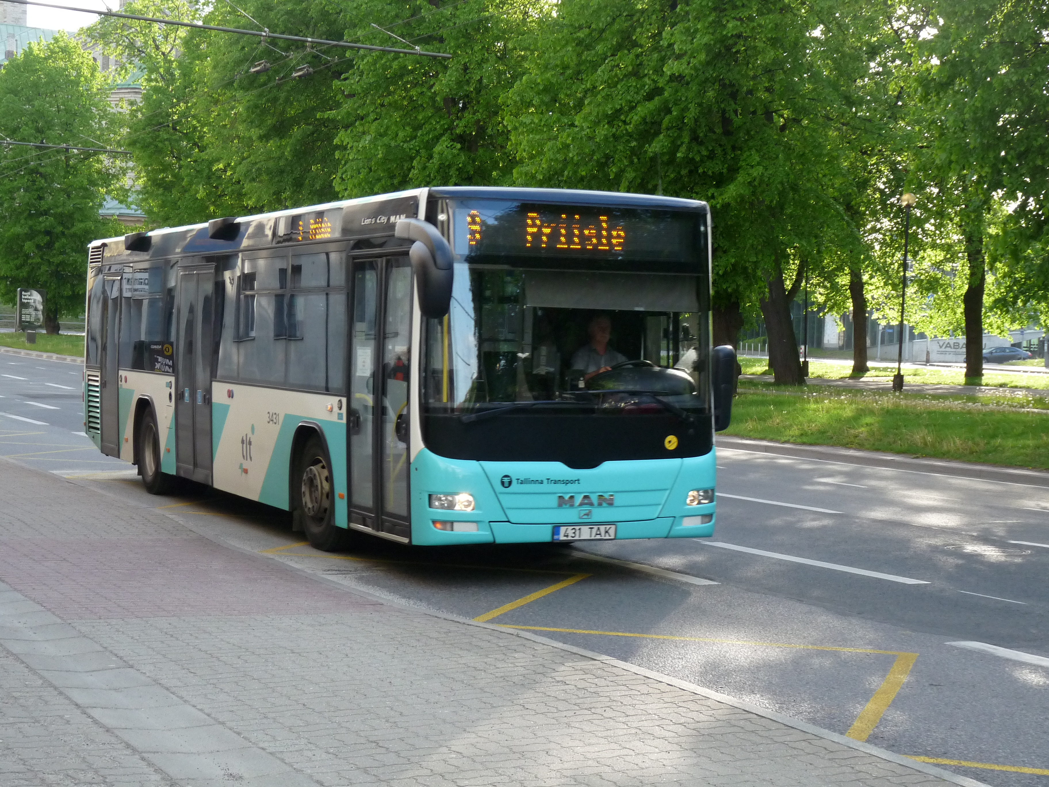 MAN public bus in Tallinn, Estonia